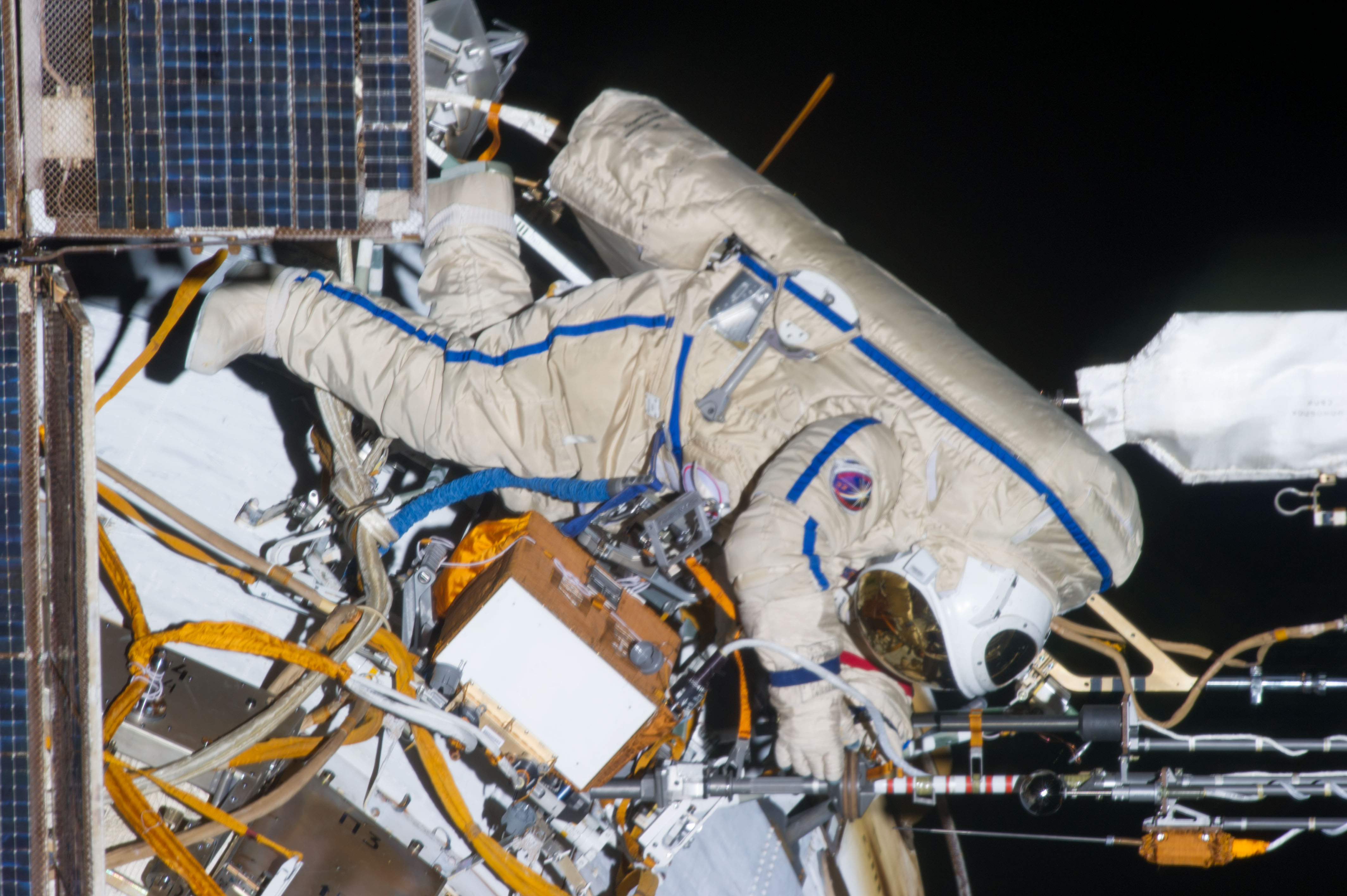 Expedition 35 Russian cosmonaut Pavel Vinogradov translates outside the International Space Station on April 19, 2013, during the first spacewalk of the Expedition 35 mission. Vinogradov and Roman Romanenko (out of frame) went on to spend about six hours upgrading the station's exterior hardware.